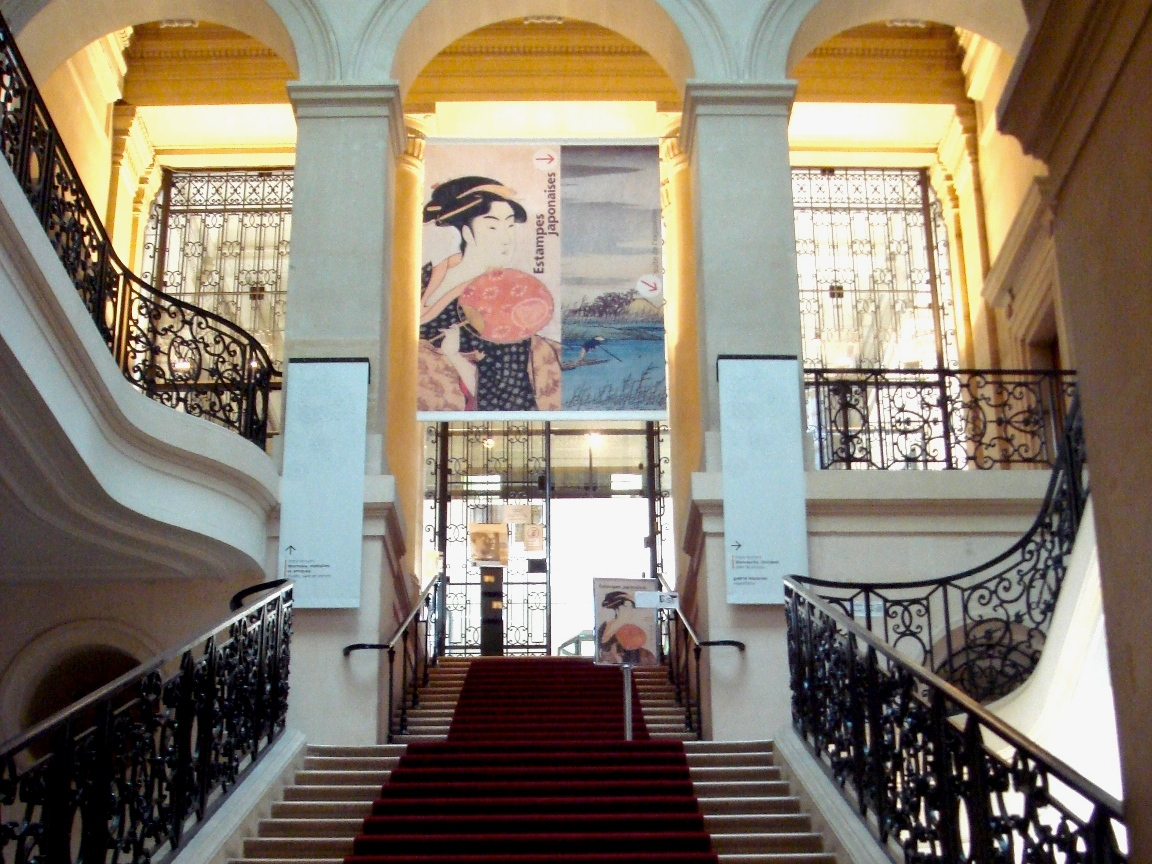 Cabinet des Medailles